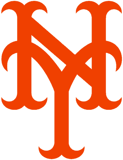 Logo of the New York Giants.